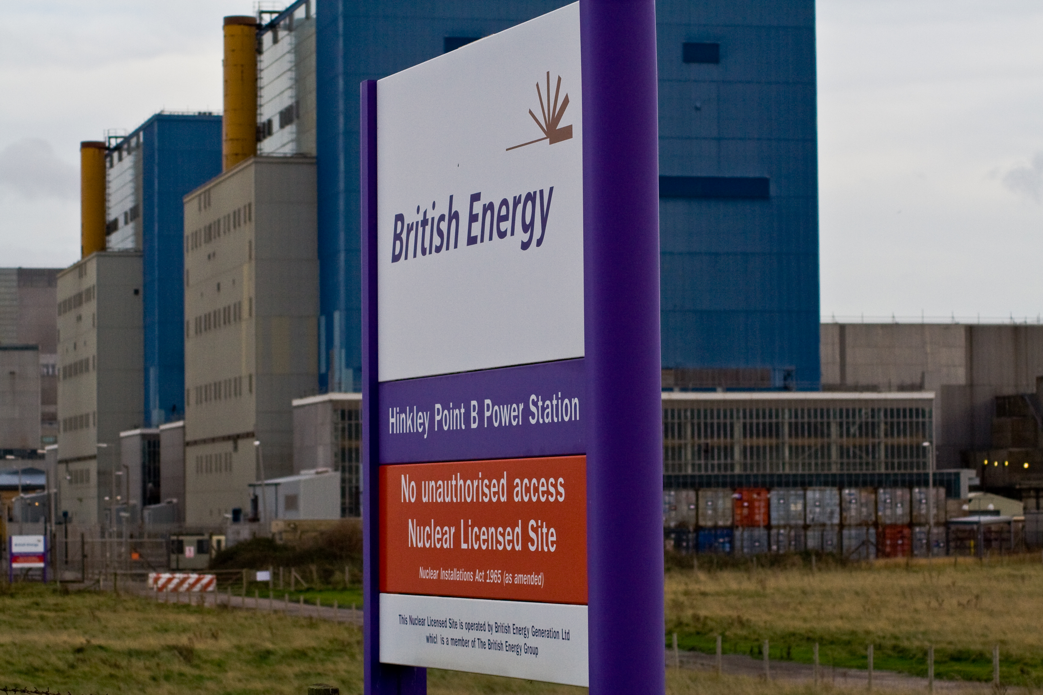 Hinkley Point A nuclear power station seen from the entrance to Hinkley Point B